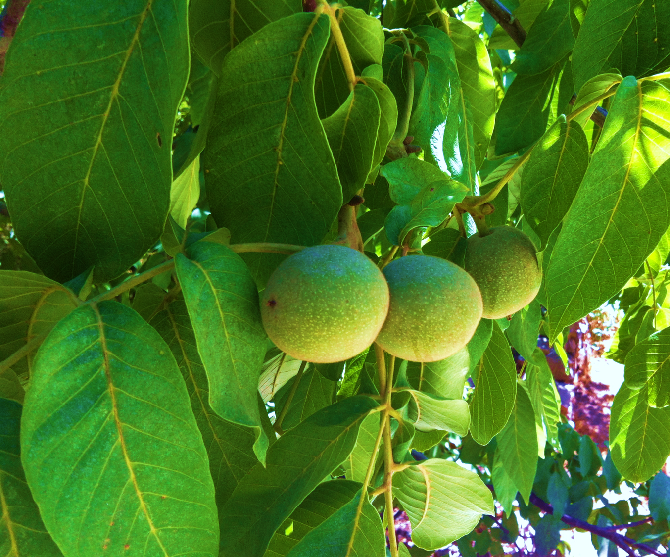 Raw Green Walnuts of Juglane tree in Hawraman, Sulaymaniyah, Kurdistan, Iraq